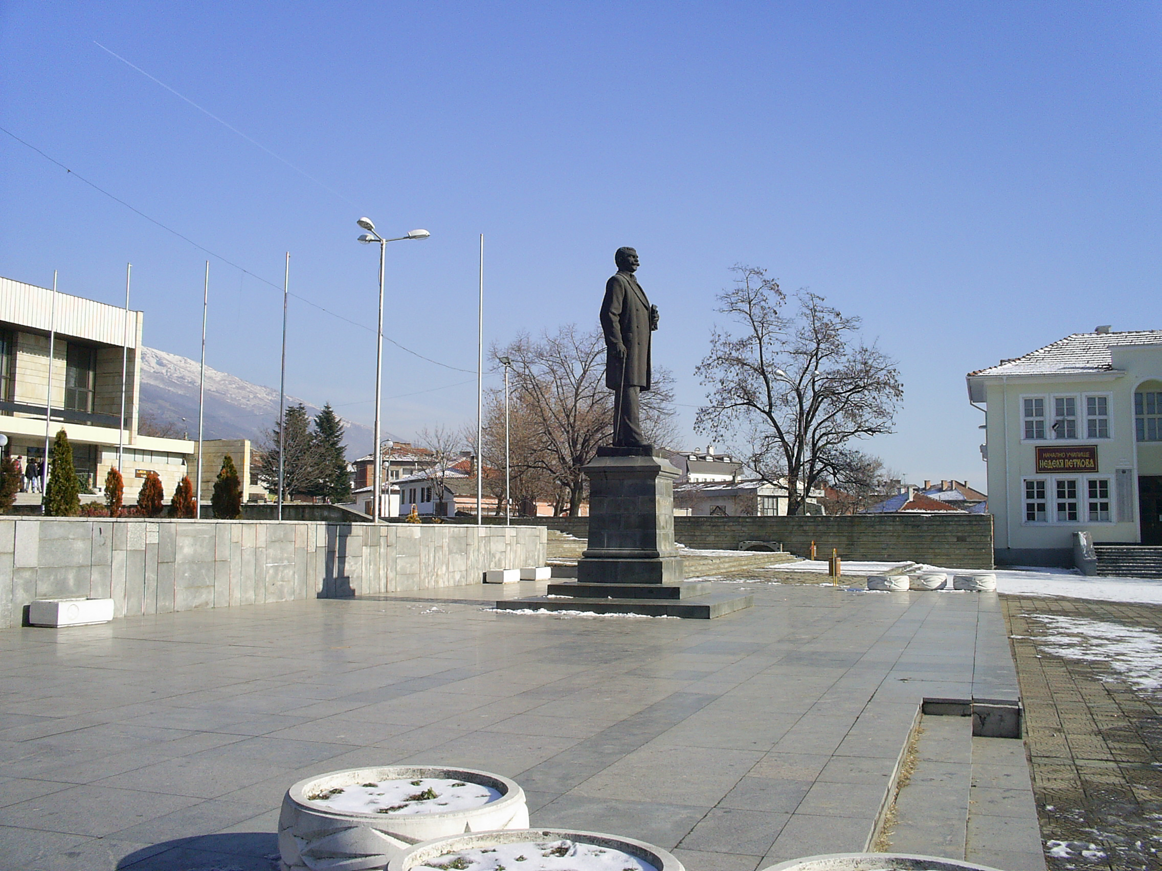 Memorial of Ivan Vazov, Writer of the Bulgarian national revival, Sopot - Bulgaria. ( © 2006 Svilen Enev {GFDL}